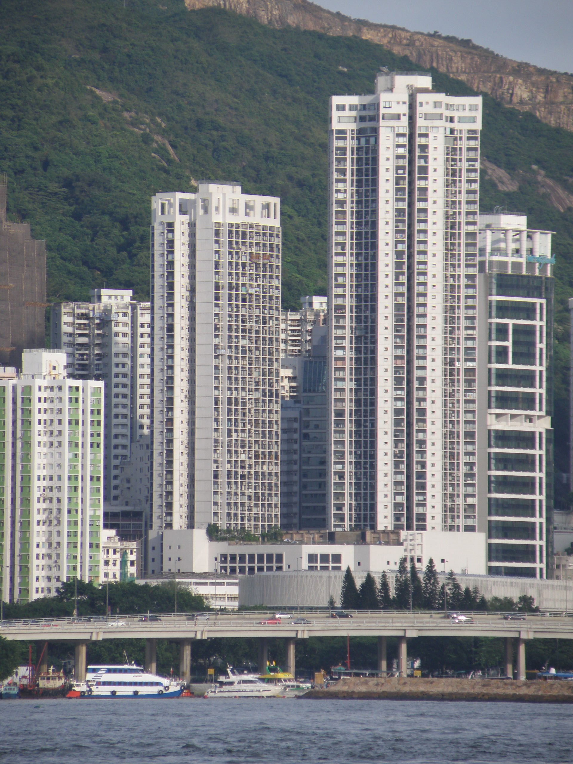 Park Towers in Tin Hau, Hong Kong.